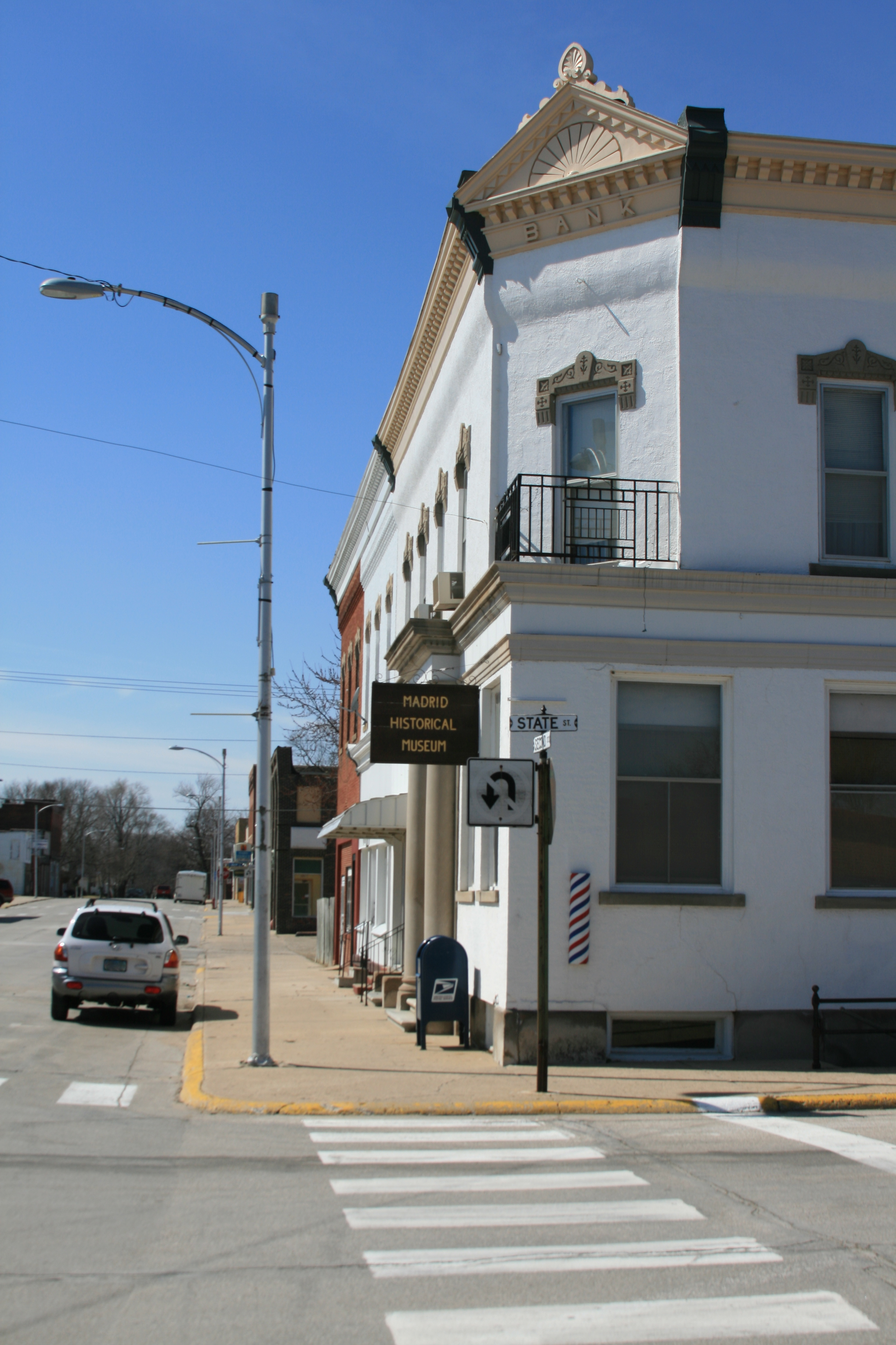 Historical Museum located in Madrid, Iowa